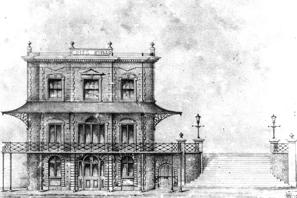 Architectural drawing by John William Holmes for Henry Moseley of Pier Hotel, which was built at Glenelg, South Australia in 1856